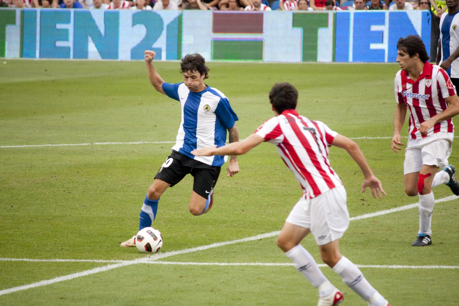 Tote during Round 1 of 2010/11 league season against Athletic Club Bilbao at the José Rico Pérez stadium.